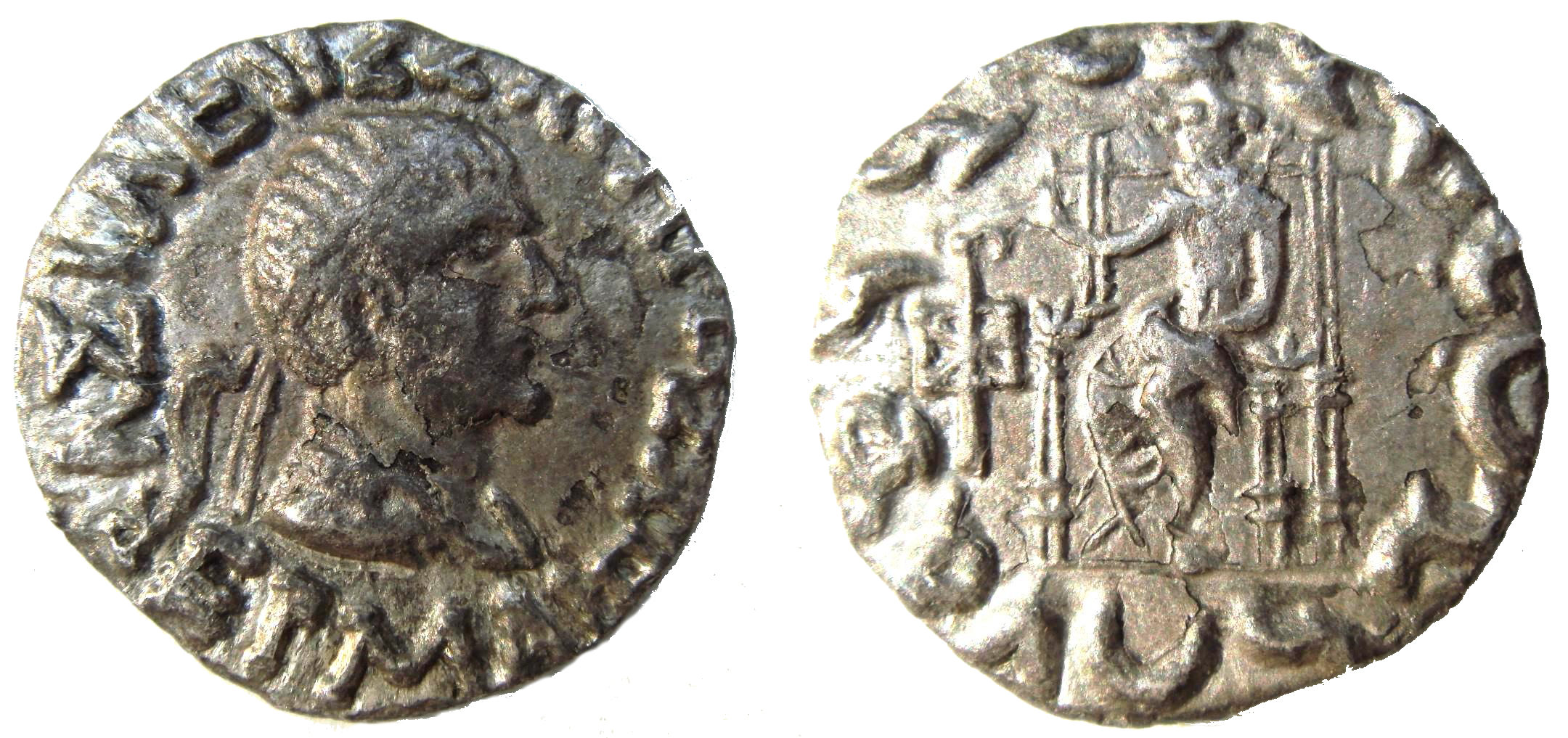 Coin of Hermaeus, 1st century BCE